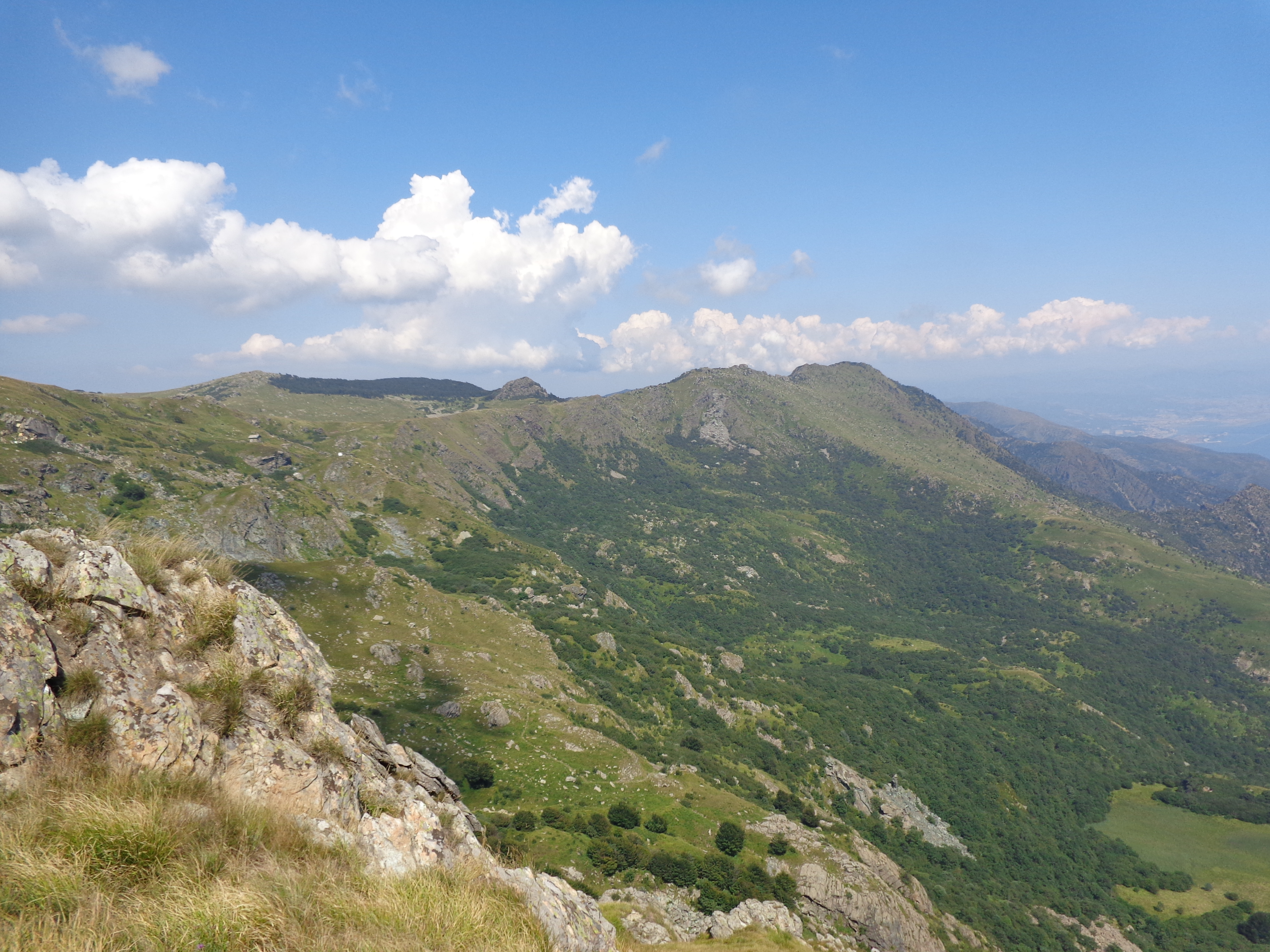 Beigua Park, Liguria, Italy